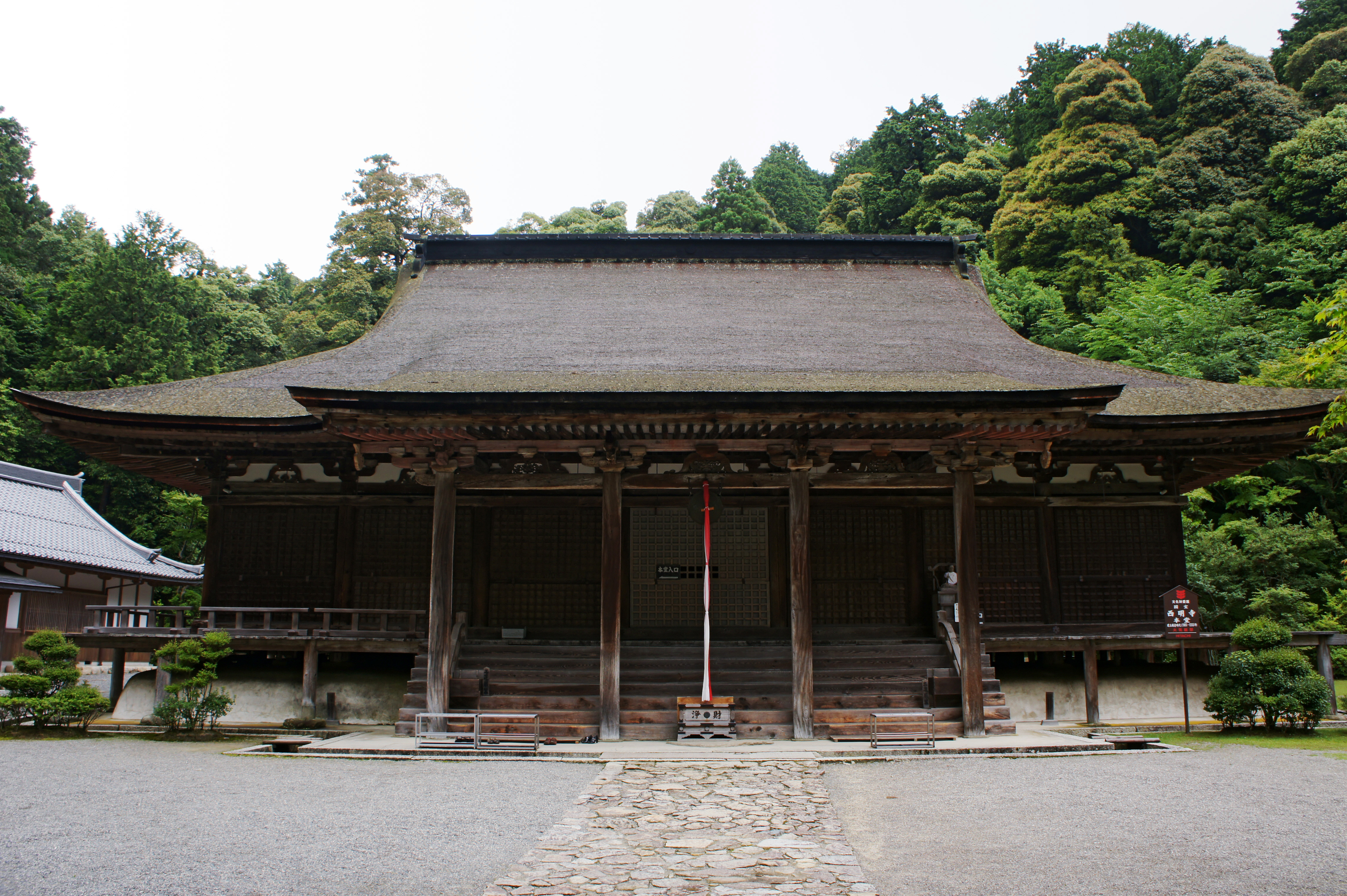 Saimyō-ji's Main Hall is a Japan's National Treasure in Kora, Shiga prefecture, Japan.